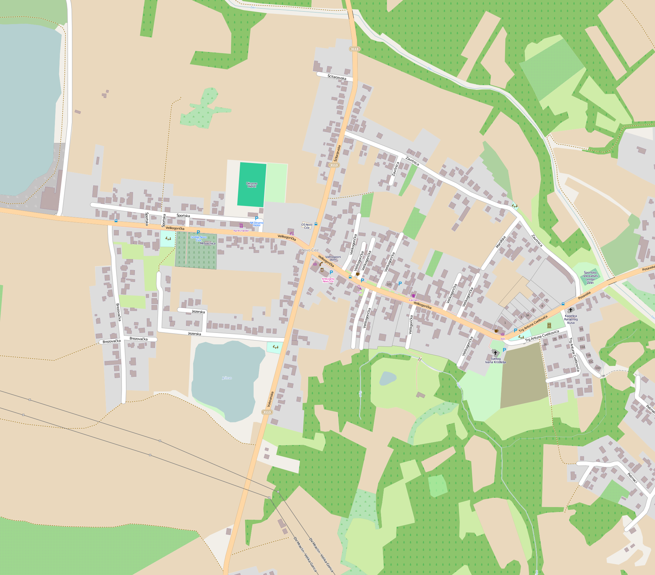 Map of Novo Čiče